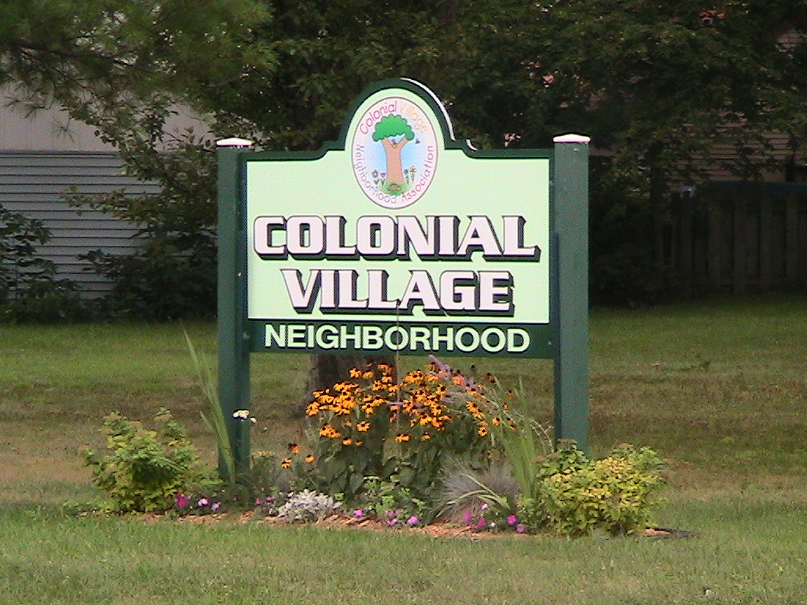 Colonial Village Neighborhood sign in Lansing, Michigan, southwest of downtown. Taken at intersection of Martin Luther King Blvd (M-99) and Mount Hope Road.